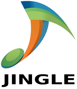 Jingle Protocol Logo Proposal